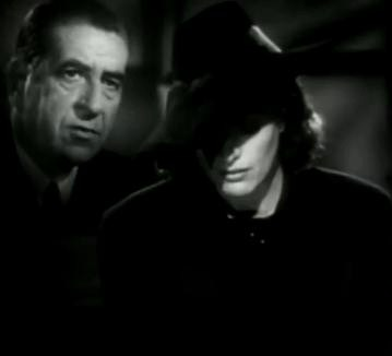 Robert Warwick and Joan Crawford in A Woman's Face (1941) - trailer (cropped screenshot).